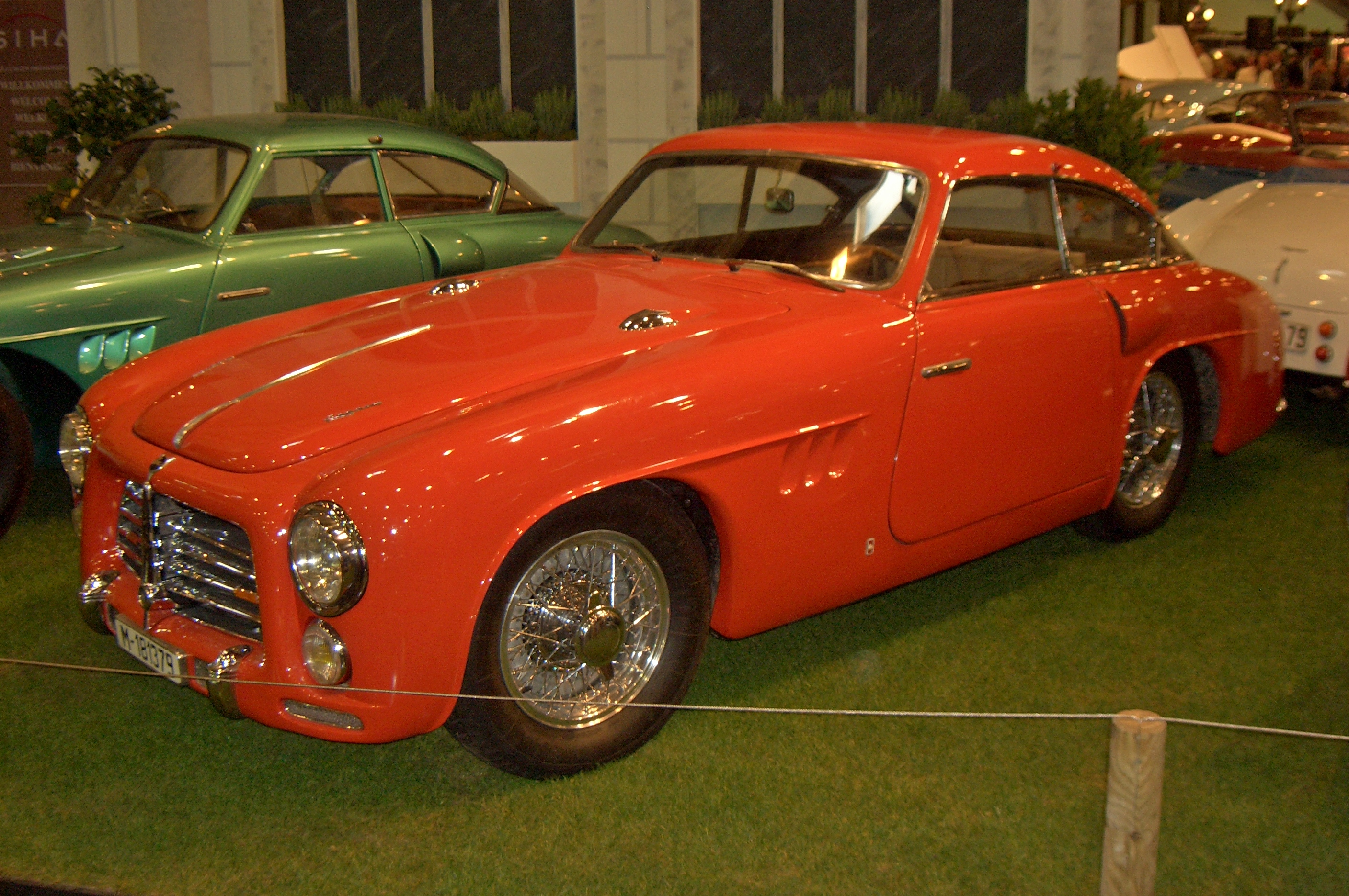 Pegaso Z-102, coachwork by ENASA , seen at TECHNO CLASSICA 2012, Essen, Germany